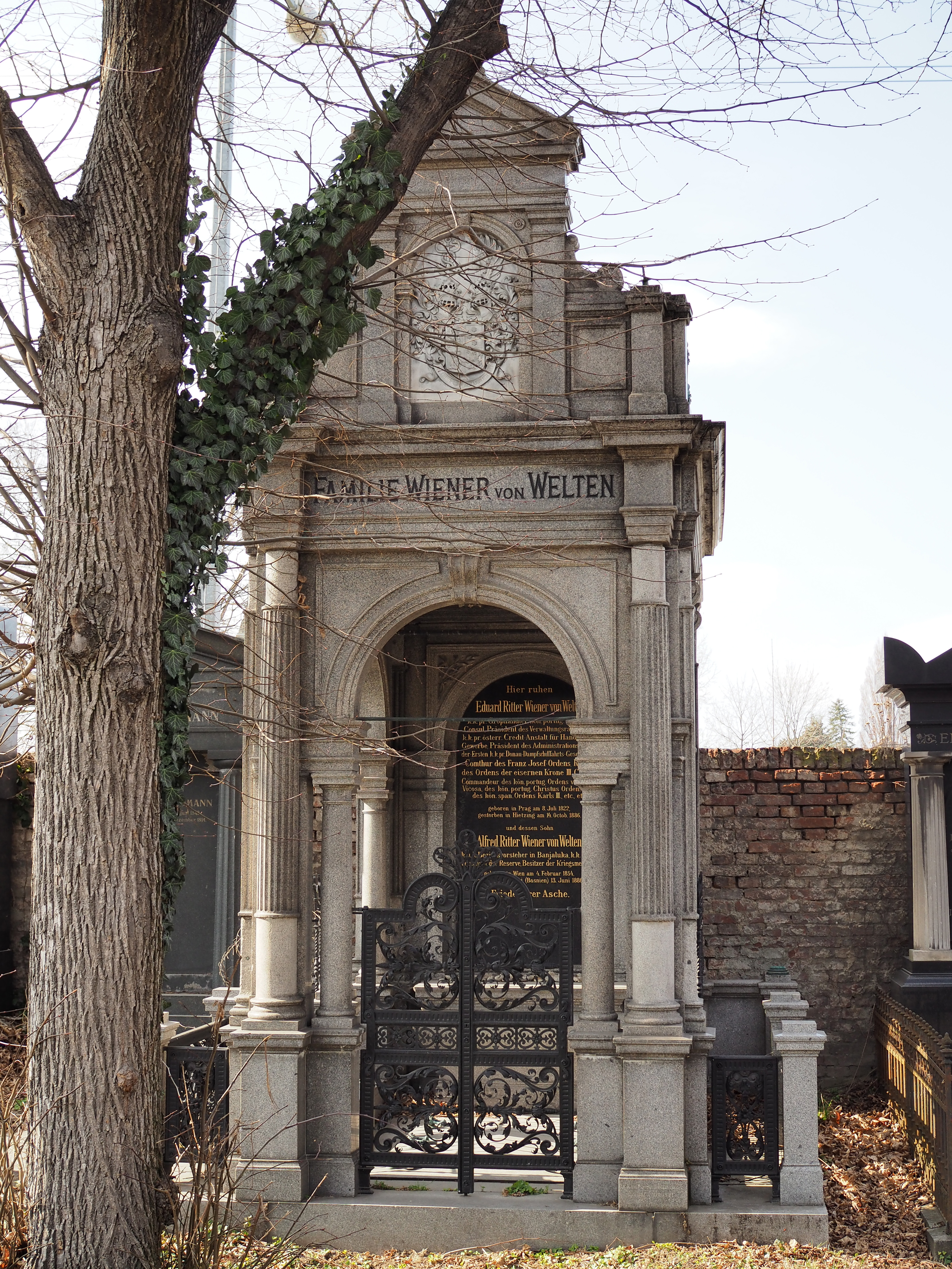 Mausoleum of the wholesaler and banker Eduard Wiener von Welten (1822, Prague–1886, Vienna) and his son Alfred in the old Jewish section of the Vienna Central Cemetery. Architect: Max Fleischer